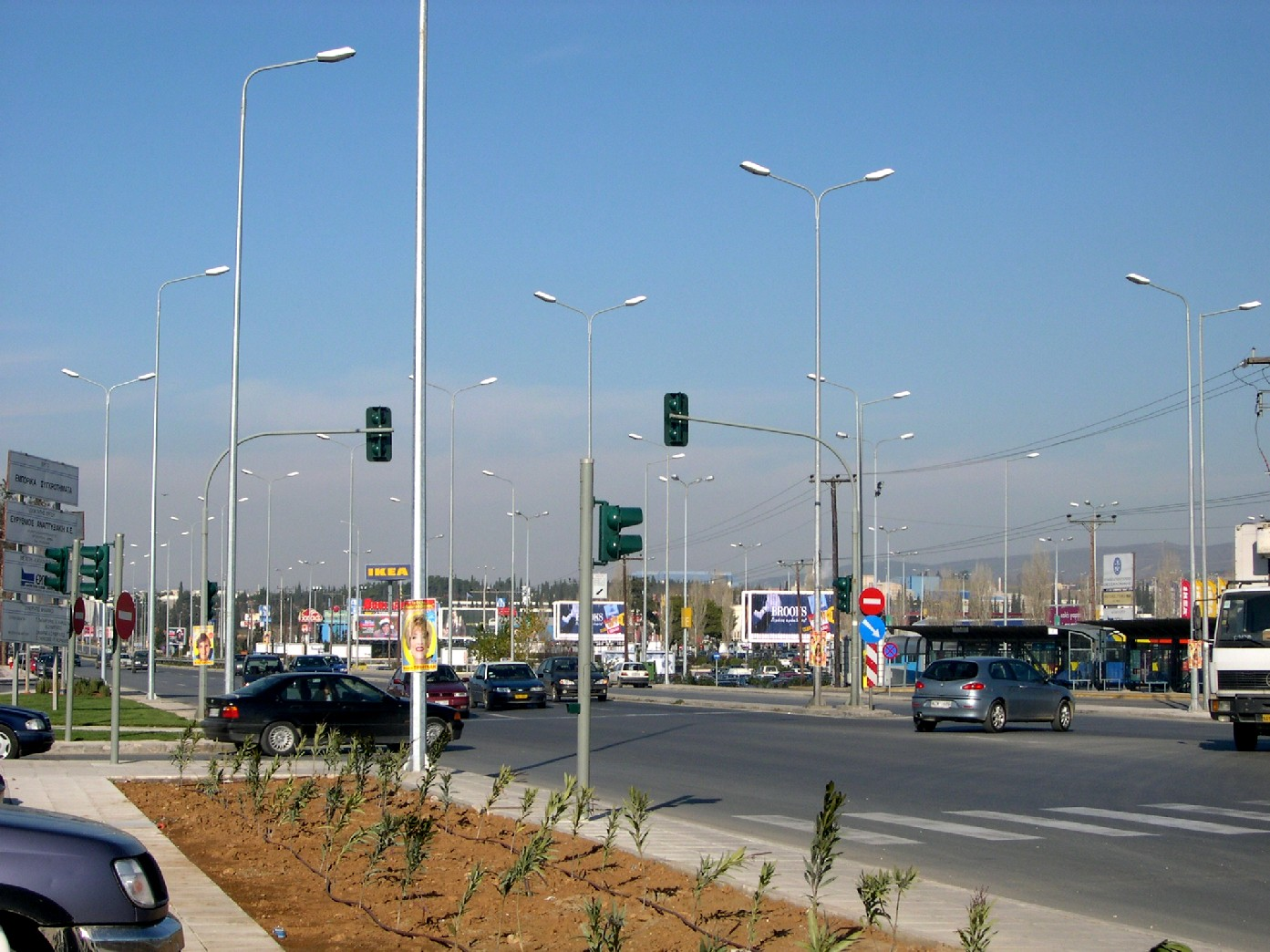 Thessaloniki-Peraia Highway, connecting Makedonia Airport with the city's centre. A sign for the local IKEA is visible, and the Interbalkan Medical Center is nearby.